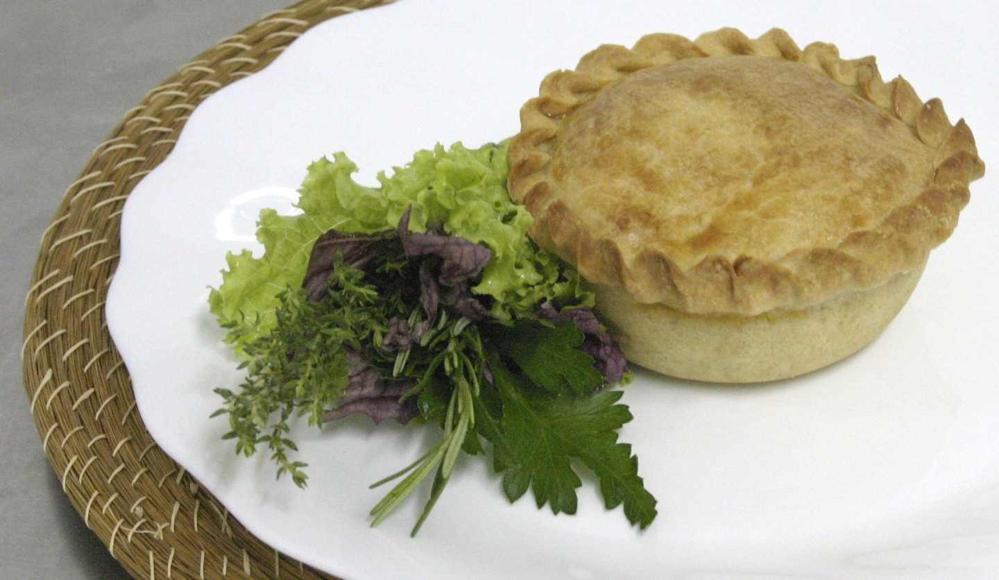 Empadão goiano; Empadão, typical dish in the Middle-Western State of Goiás, in Brazil.